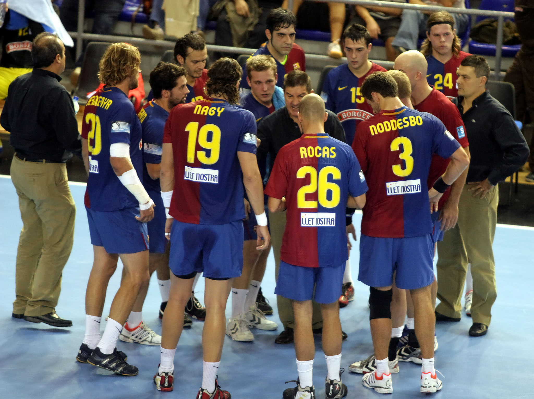 The Spanish Team from FC Barcelona on October 12th, 2008 in Barcelona (Palau Blaugrana) prior the Champions League game FC Barcelona Borges - H.C. Metalurg Skopje